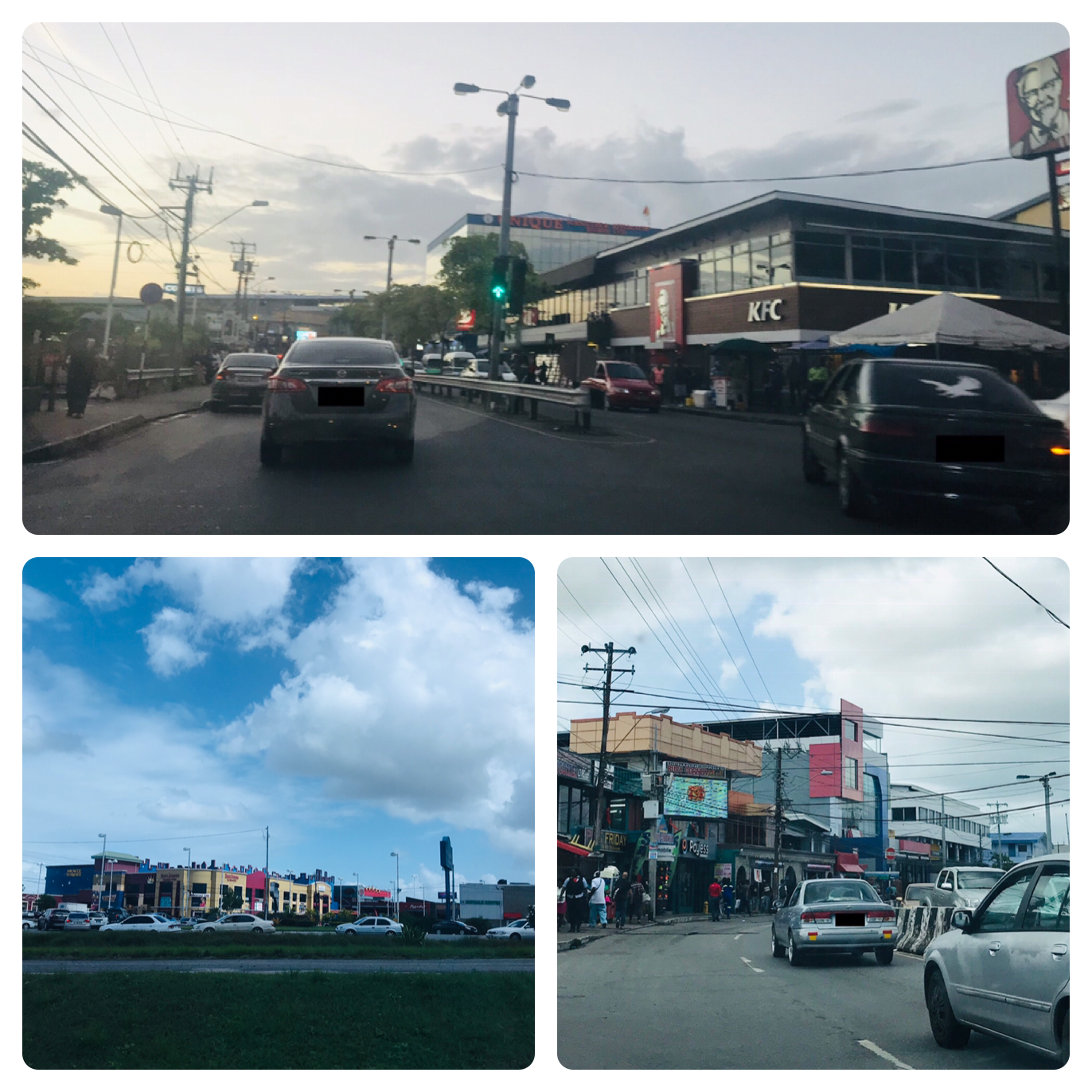 Chaguanas Main Road, Price Plaza, and Busy Corner